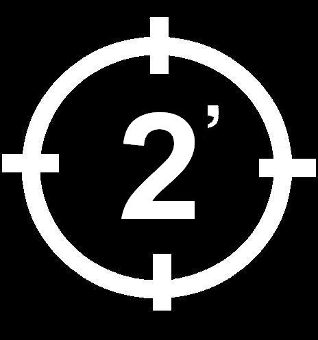 picture free.